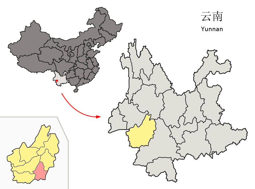 Location of Shuangjiang County (pink) and Lincang Prefecture (yellow) within Yunnan province of China Map drawn in september 2007 using various sources, mainly : Yunnan province administrative regions GIS data: 1:1M, County level, 1990 Yunnan Counties map from